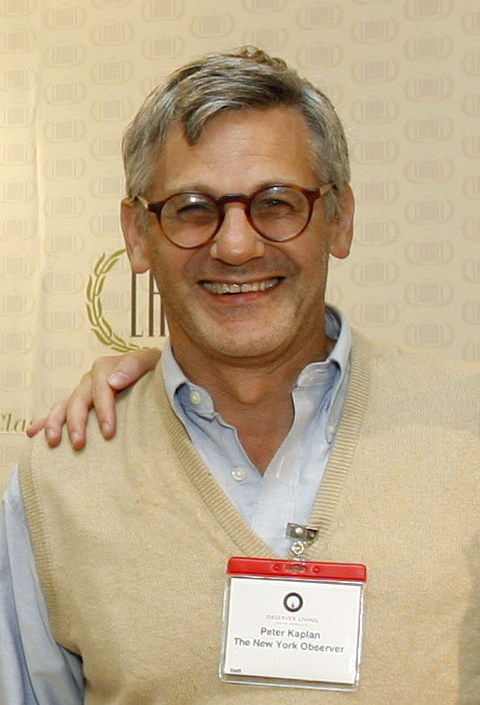 New York Observer editor in chief Peter Kaplan at the Observer Living: Condo Showcase in New York, Sunday, Sept., 21, 2008. The Showcase featured 50 developments throughout New York City. (Photo/The New York Observer/Stuart Ramson)